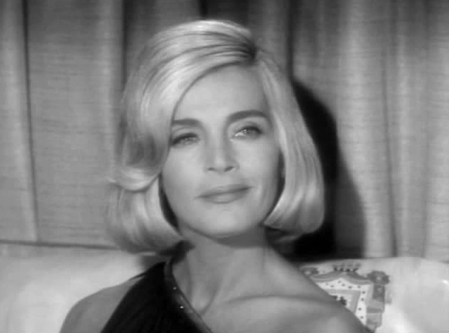 Lizabeth Scott in Burke's Law episode, "Who Killed Robert Cable?" Other information Screenshot of television show now in the public domain